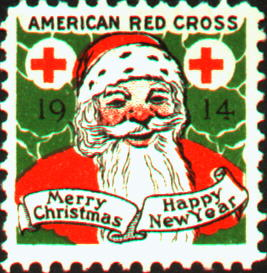 1914 US Christmas Seal